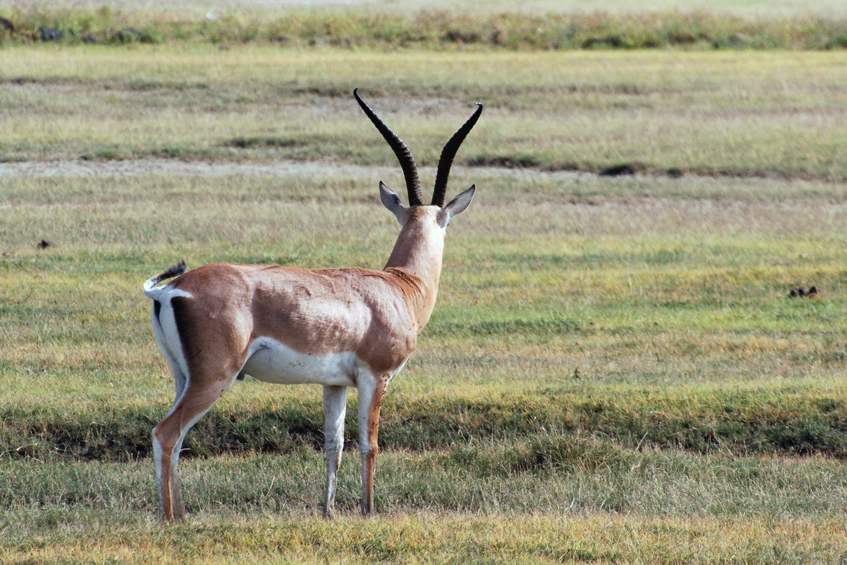 The Grant's gazelle (Nanger granti) is a species of gazelle. Its populations are distributed from northern Tanzania to southern Sudan and Ethiopia, and from the Kenyan coast to Lake Victoria.